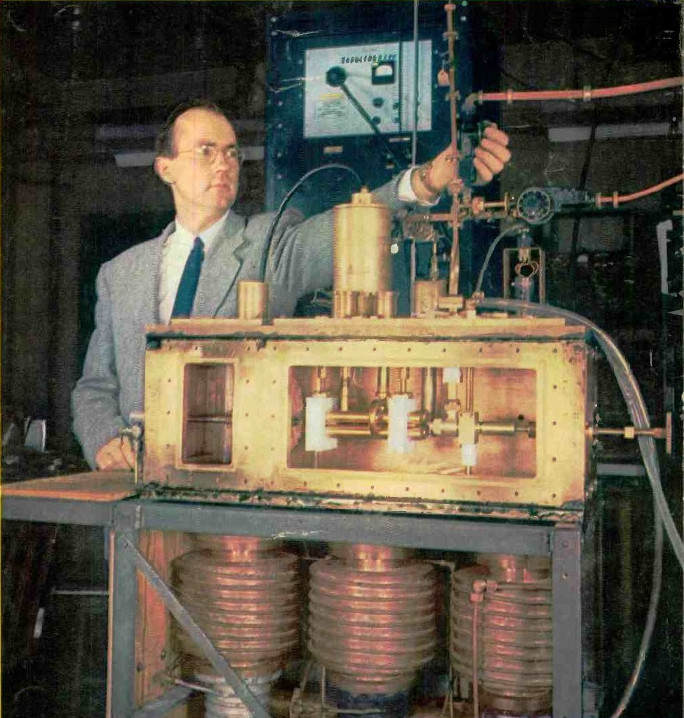 The first maser (Microwave Amplification by Stimulated Emission of Radiation), invented by Charles H. Townes, James P. Gordon, and H. J. Zeiger at Columbia University in 1953. Townes, Nikolay Basov and Alexander Prokhorov were awarded the 1964 Nobel Prize in Physics for theoretical research that led to the maser. Townes is shown with the device. This was an ammonia maser. The brass box is the vacuum chamber through which the ammonia ions travel. The ammonia gas nozzle is at left. The four rods at center are the quadrupole filter which filters out the lower state ammonia molecules, leaving a population inversion. In the resonant cavity at right, stimulated emission of microwaves by the molecules excites standing waves in the cavity, which pass out through the vertical output waveguide. The devices at bottom are vacuum pumps which evacuated the box. Masers are used as the timekeeping elements in atomic clocks, and as extremely low-noise microwave amplifiers in radio telescopes. Alterations to image: cropped out rest of magazine cover